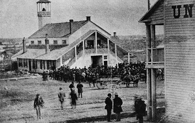 First city hall of Ottawa, Canada. Located on Elgin Street, it also served as the "West Ward Market Building".